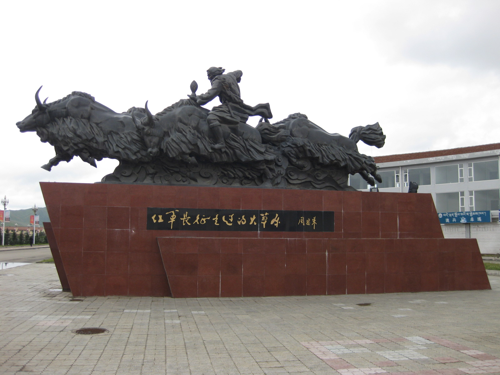 Sculpture-The Running Grassland，Hongyuan County，Sichuan，China